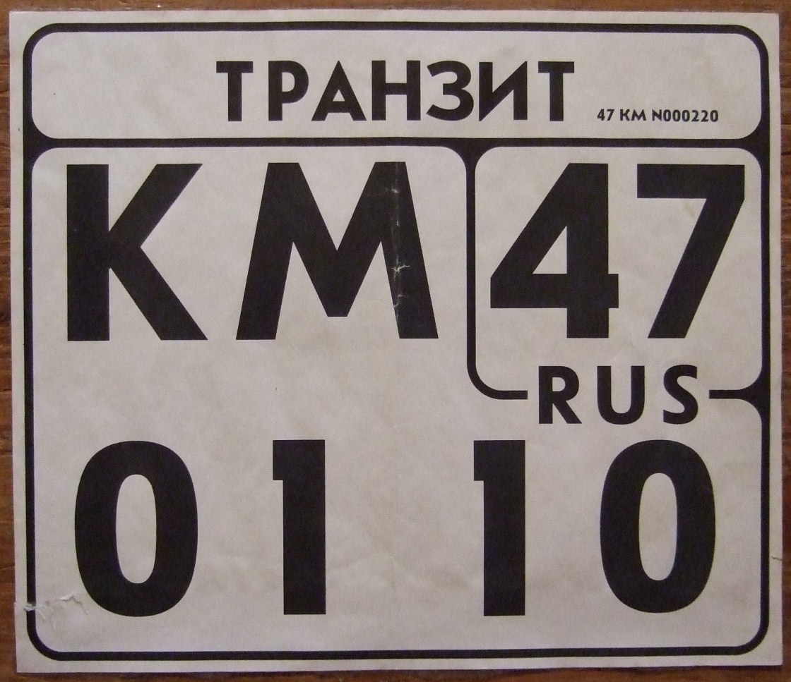 Russia, St. Petersburg region ---transit plate---front. The regional code of "47" denotes this.